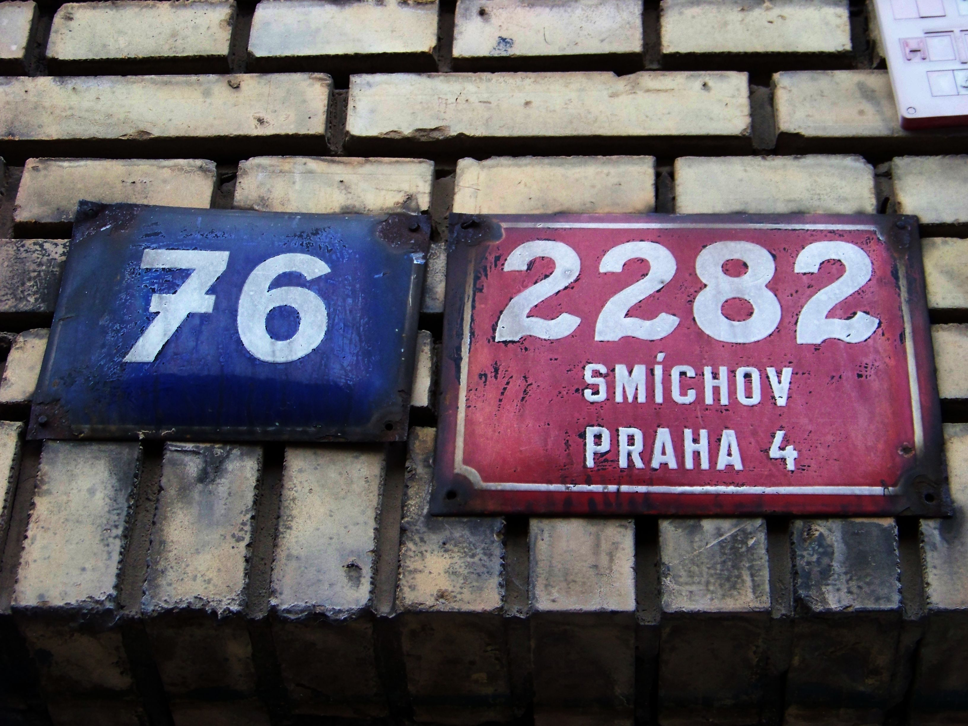 Prague-Smíchov, the Czech Republic. Holečkova 2282/76, house numbers.